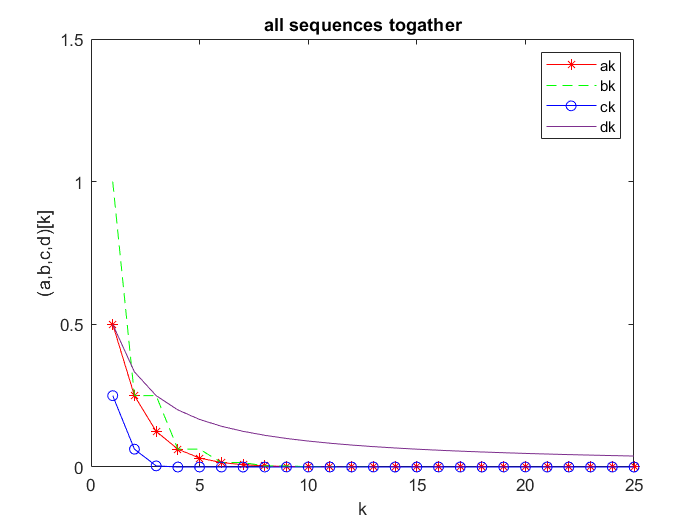 All_converganceRate